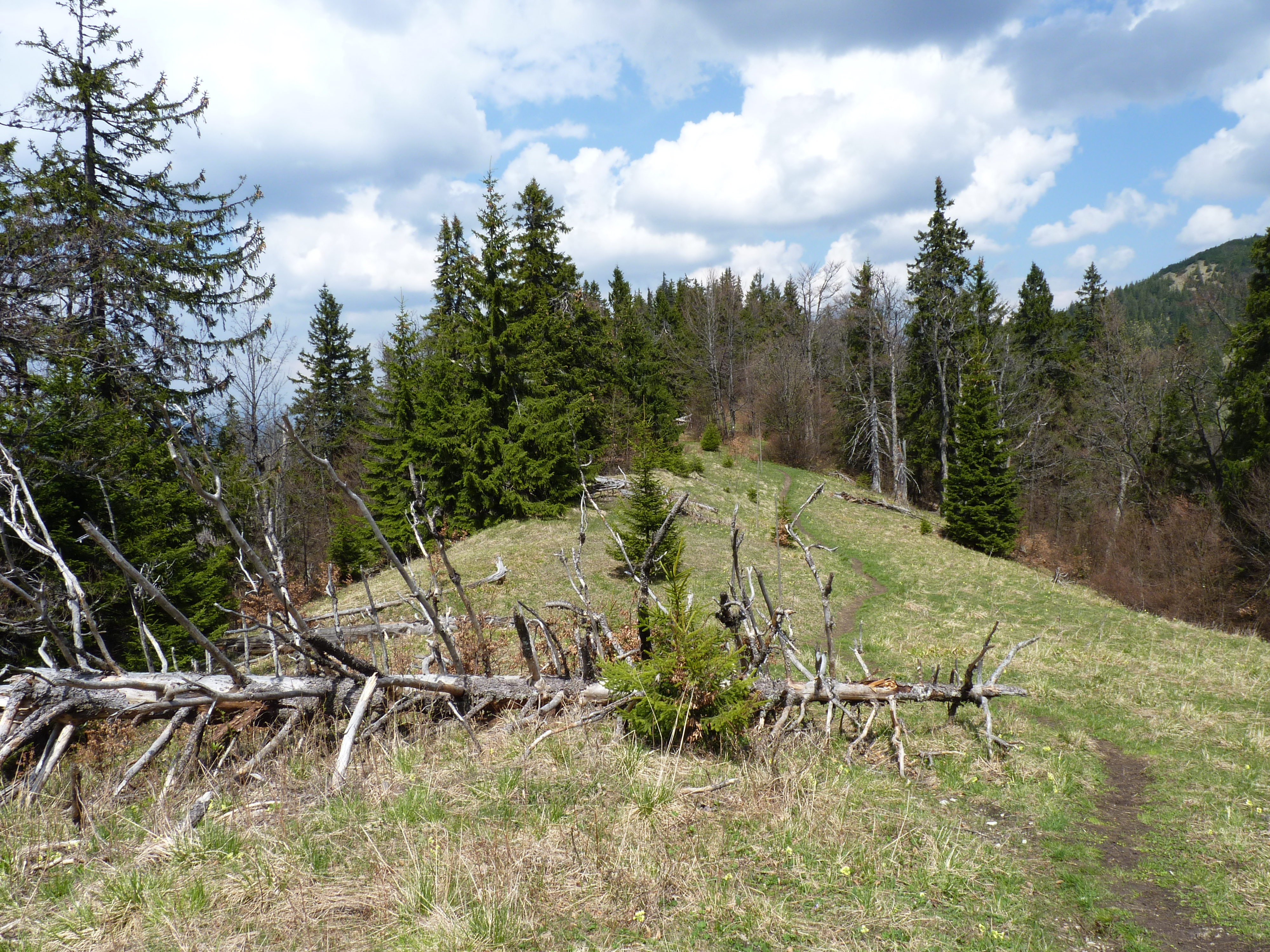 Great Fatra, Slovakia